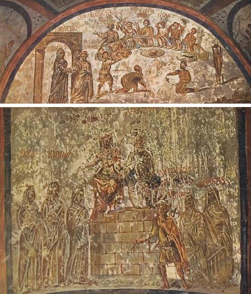 Hypogaeum of Vibia